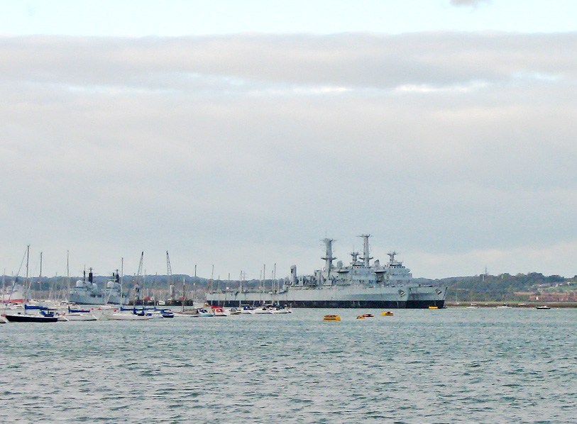 HMS Fearless (L10) and Intrepid (L11) awaiting disposal at Portsmouth, 31 October 2006.